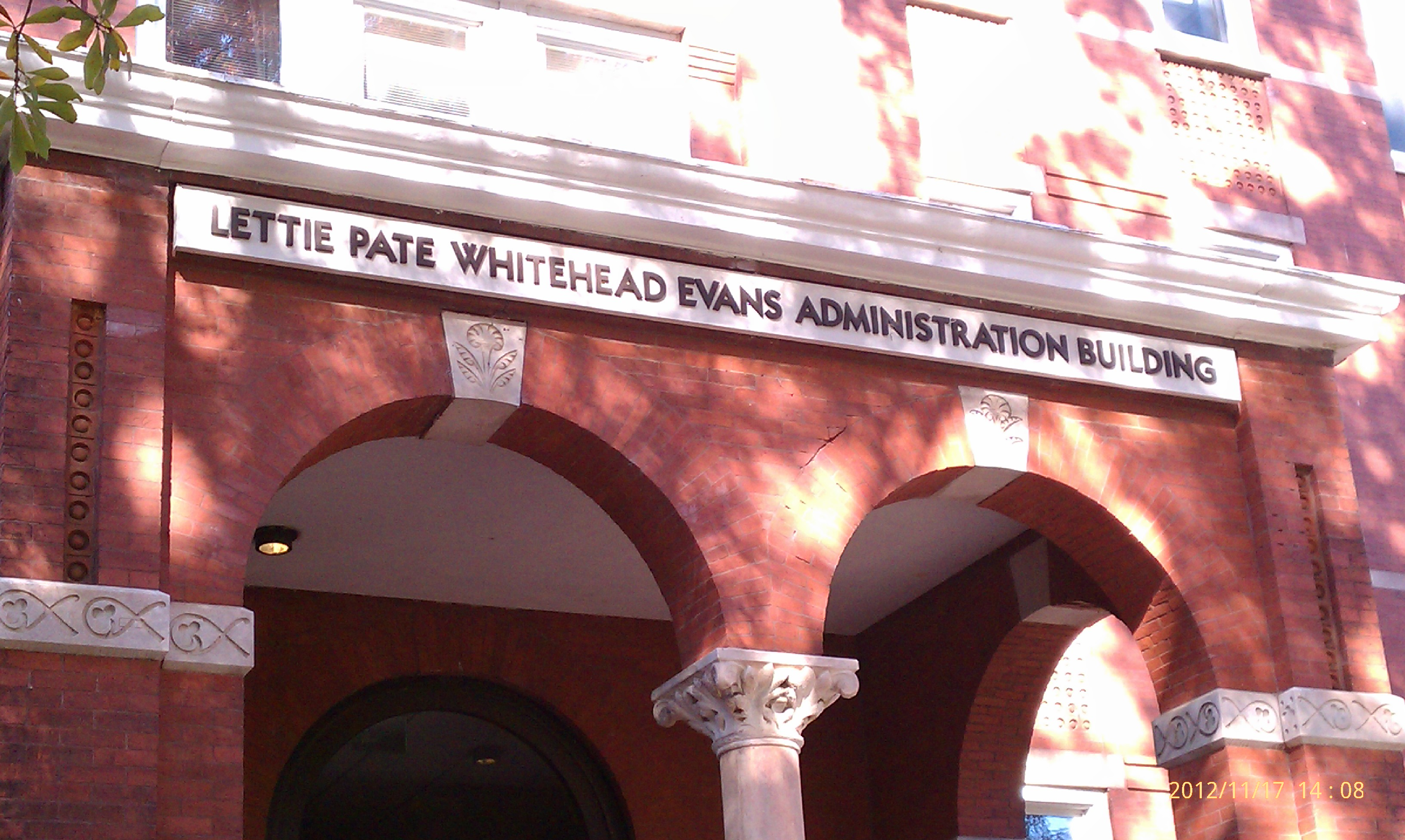 Picture of Lettie Pate Whitehead Evans Administration Building on Georgia Tech campus